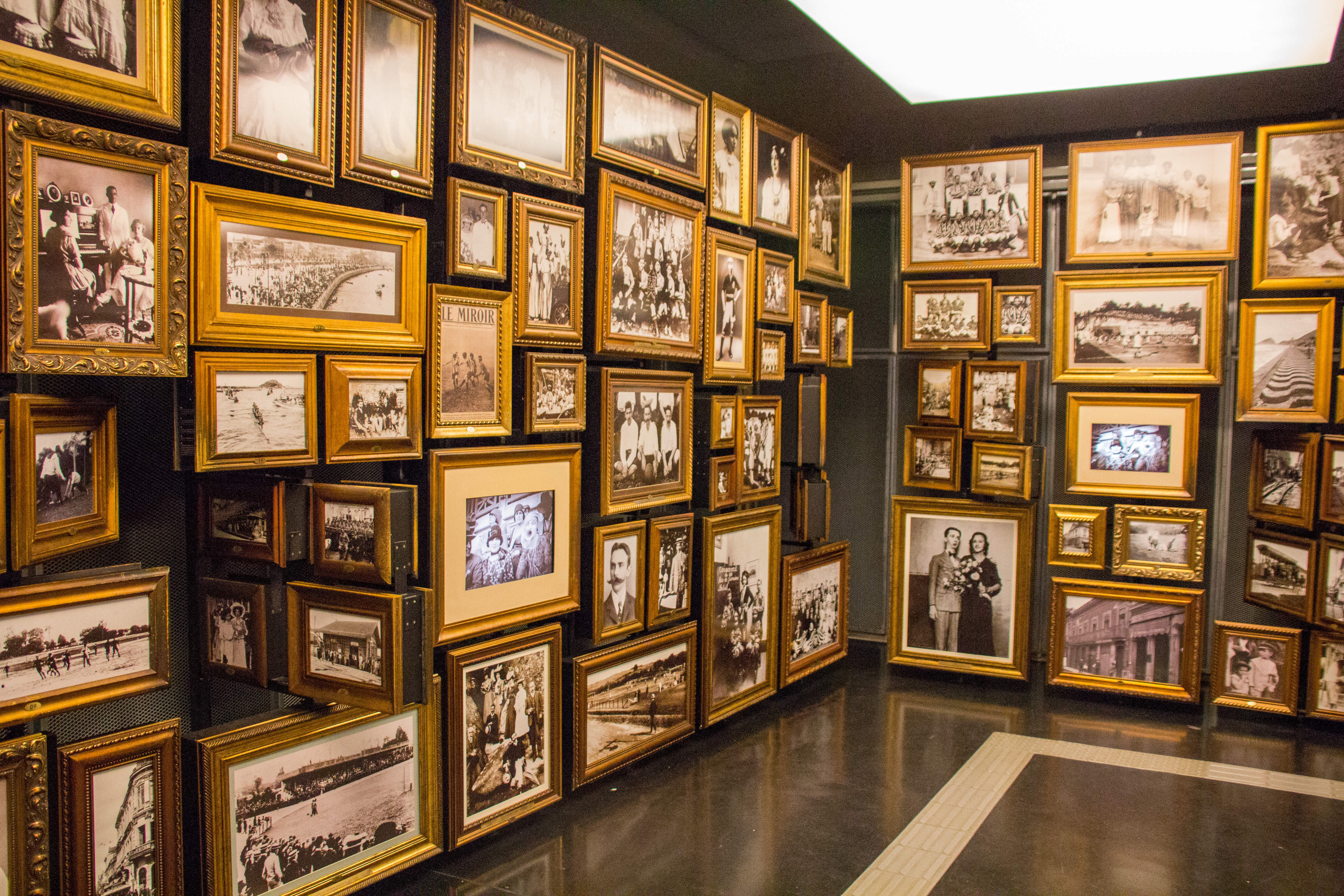 Museu do Futebol, São Paulo, Brazil